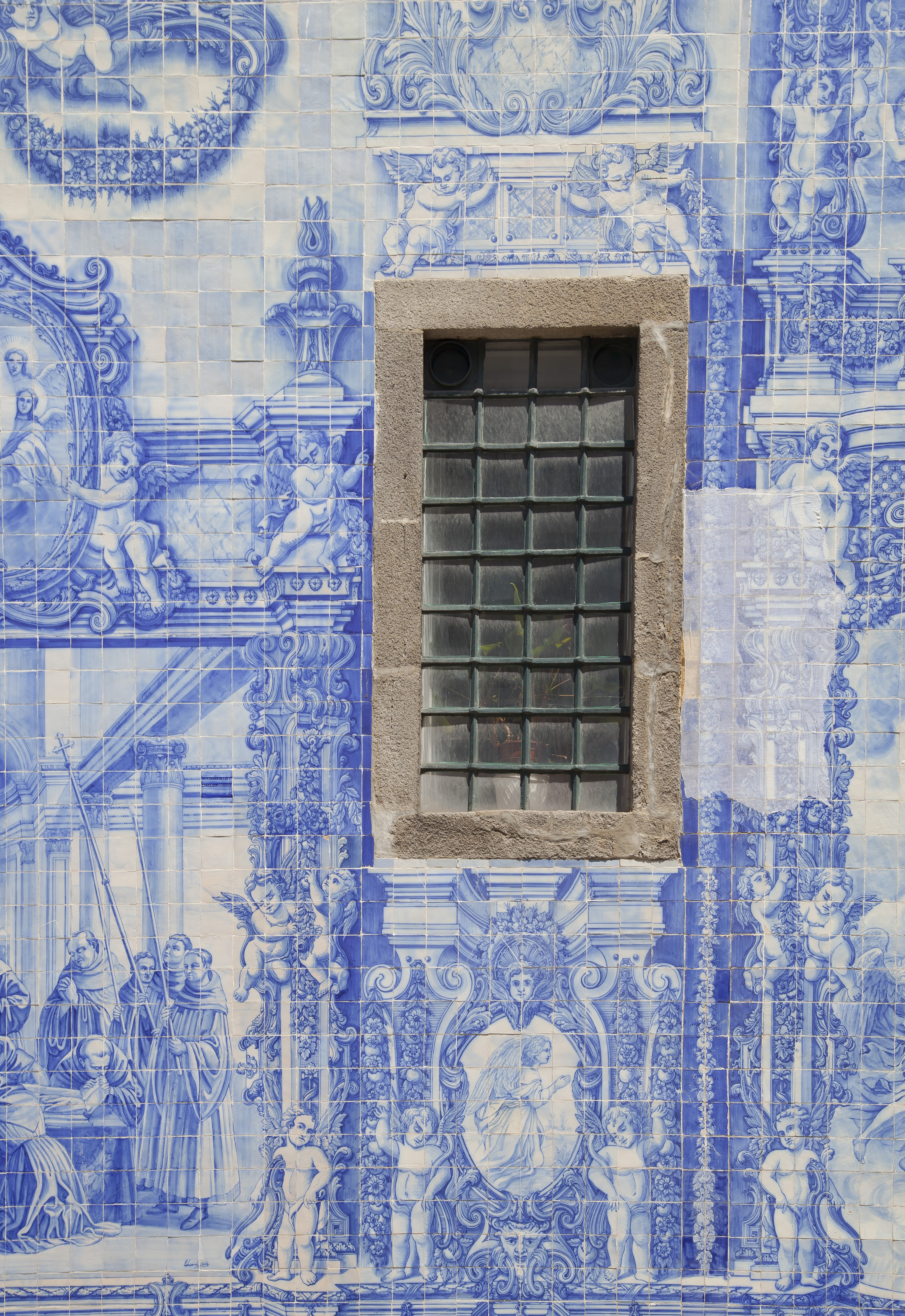 Chapel of the Souls, Porto, Portugal